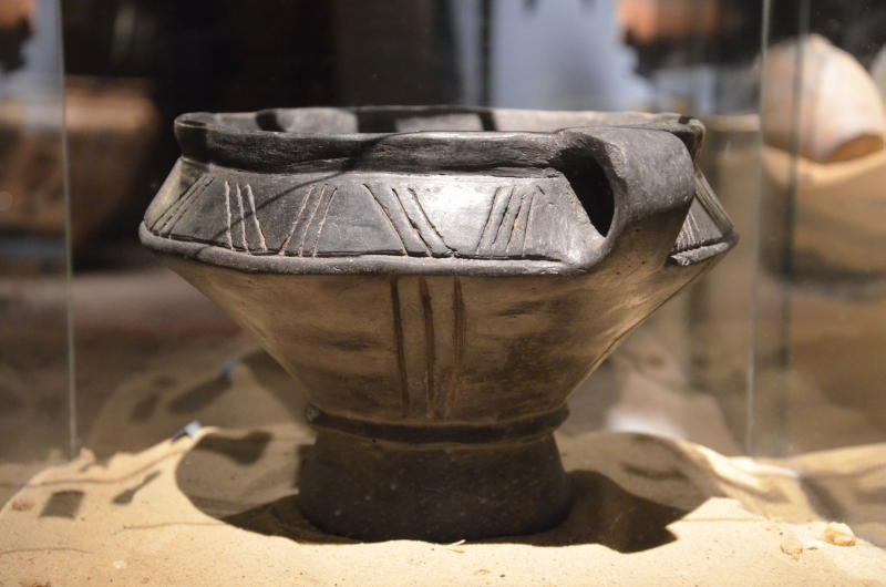 Przeworsk culture